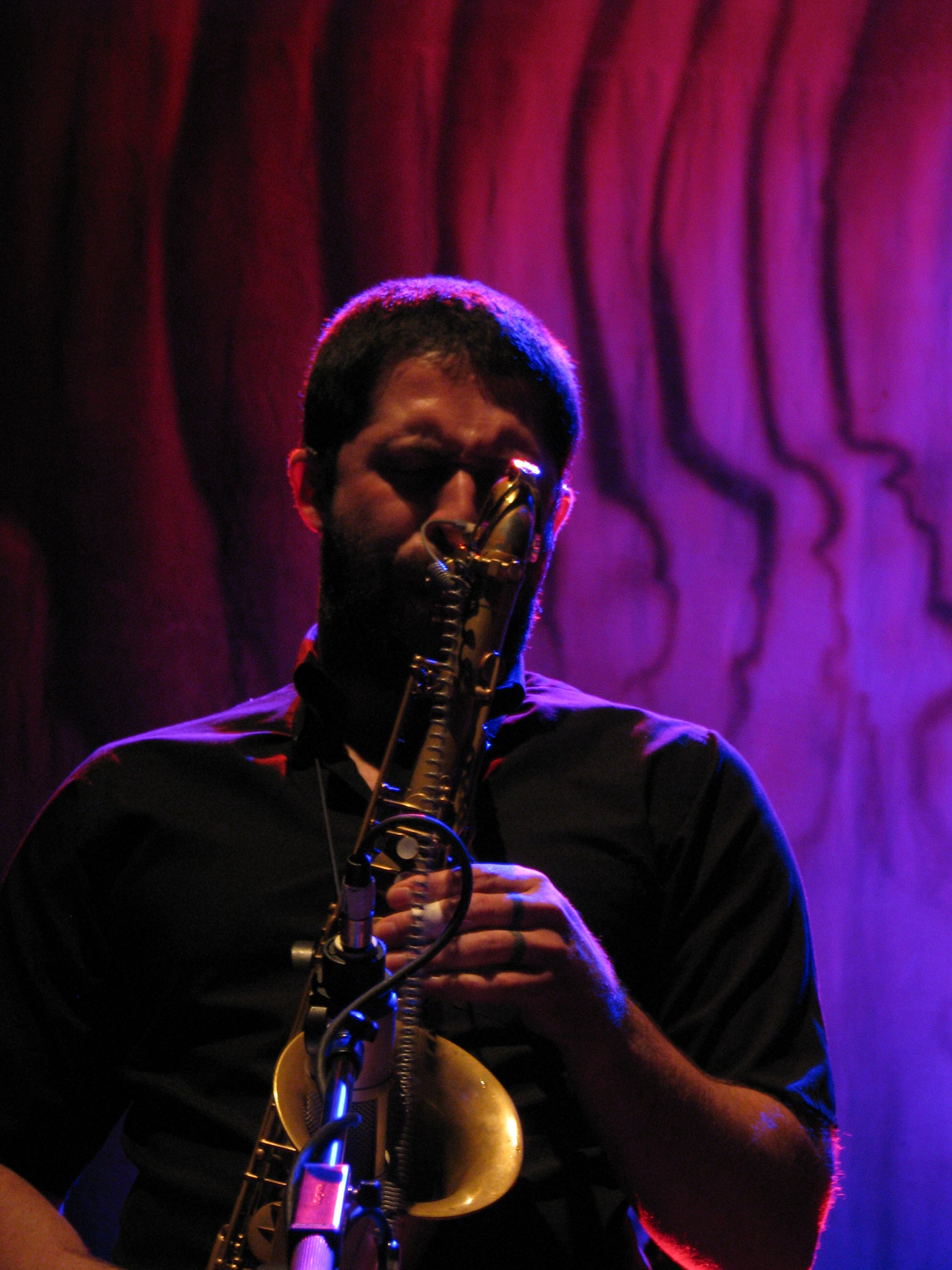 Adrián Terrazas-González, a brass and wind instrument player and percussionist for the Mars Volta, performing in the Roy Wilkins Auditorium in St. Paul, MN.